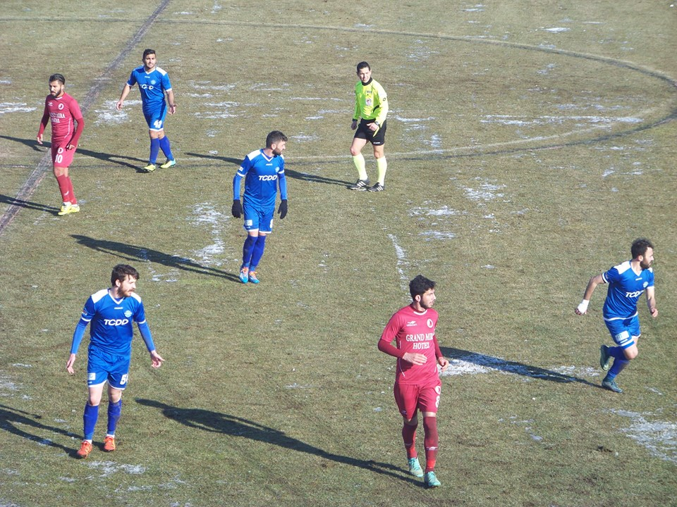 Turkish 2. Lig (2nd League) Ankara Demirspor 2-1 Kartalspor match (2015-2016 season)